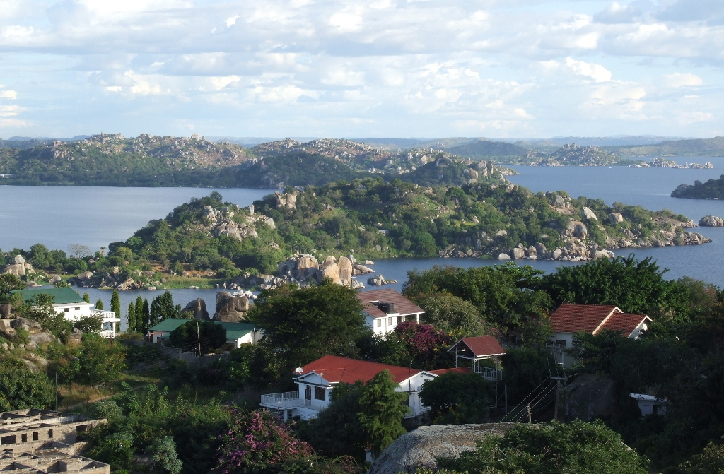 Capri Point, Mwanza, Tanzania